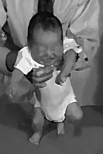 Walking reflex in a young infant.